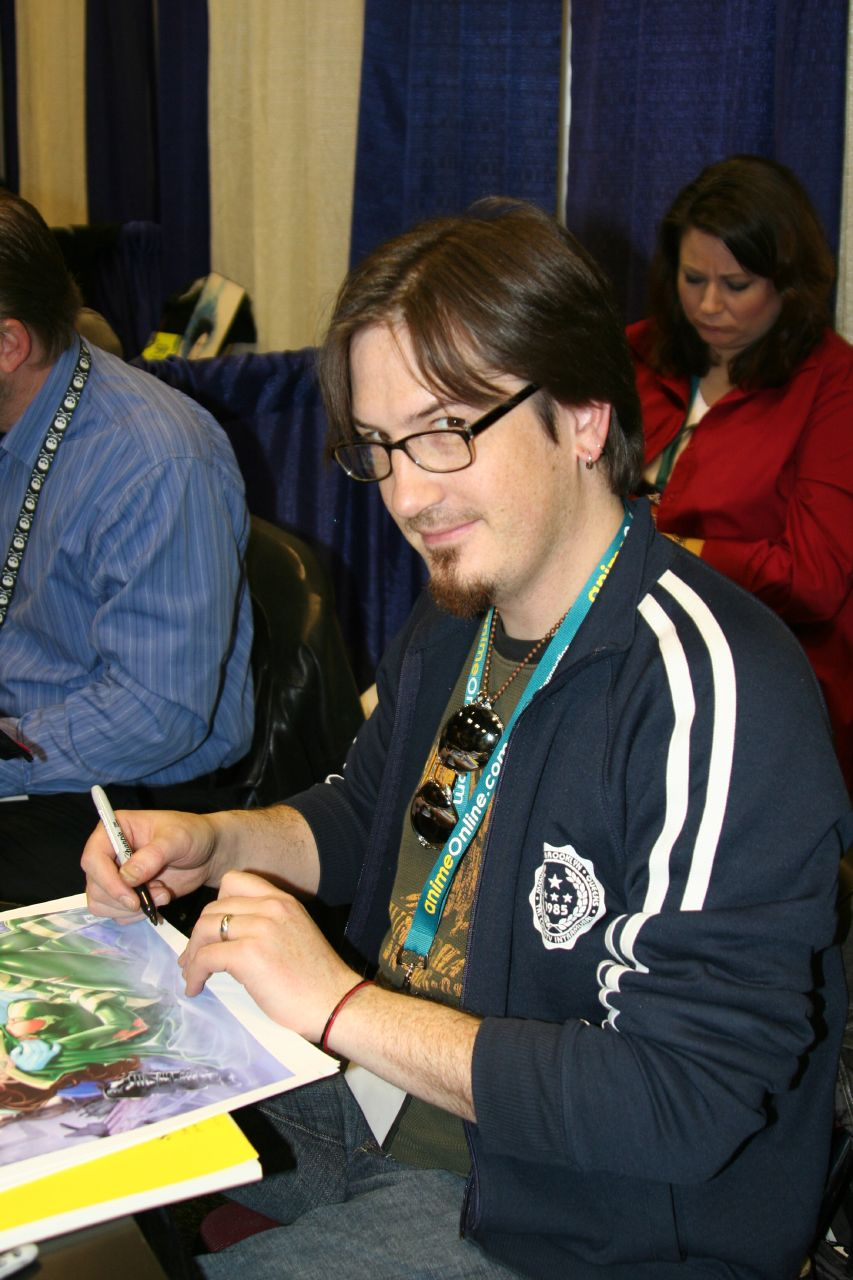 Mark Brooks, comic book artist from Lilburn, Georgia who is currently signed to an exclusive contract with Marvel comics.